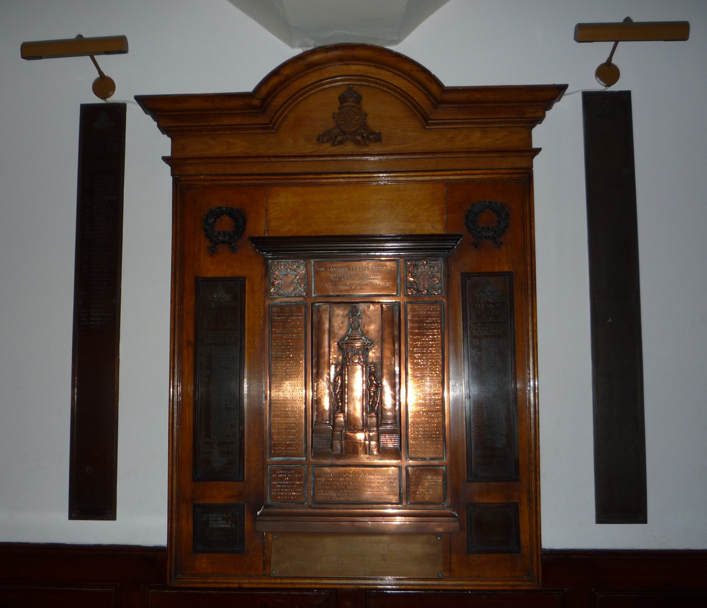 Memorial to the London Heavy Brigade, Royal Garrison Artillery, and its successor units, in St Mary Magdalene Church, Holloway Road, London